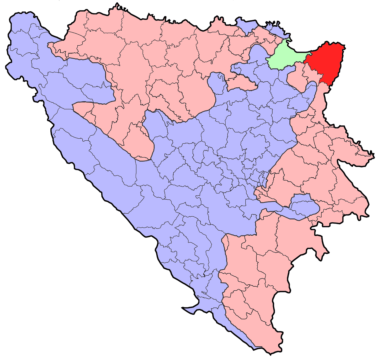 Location of Bijeljina municipality in Bosnia and Herzegovina.